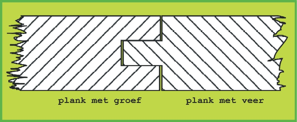 Tongue and groove.